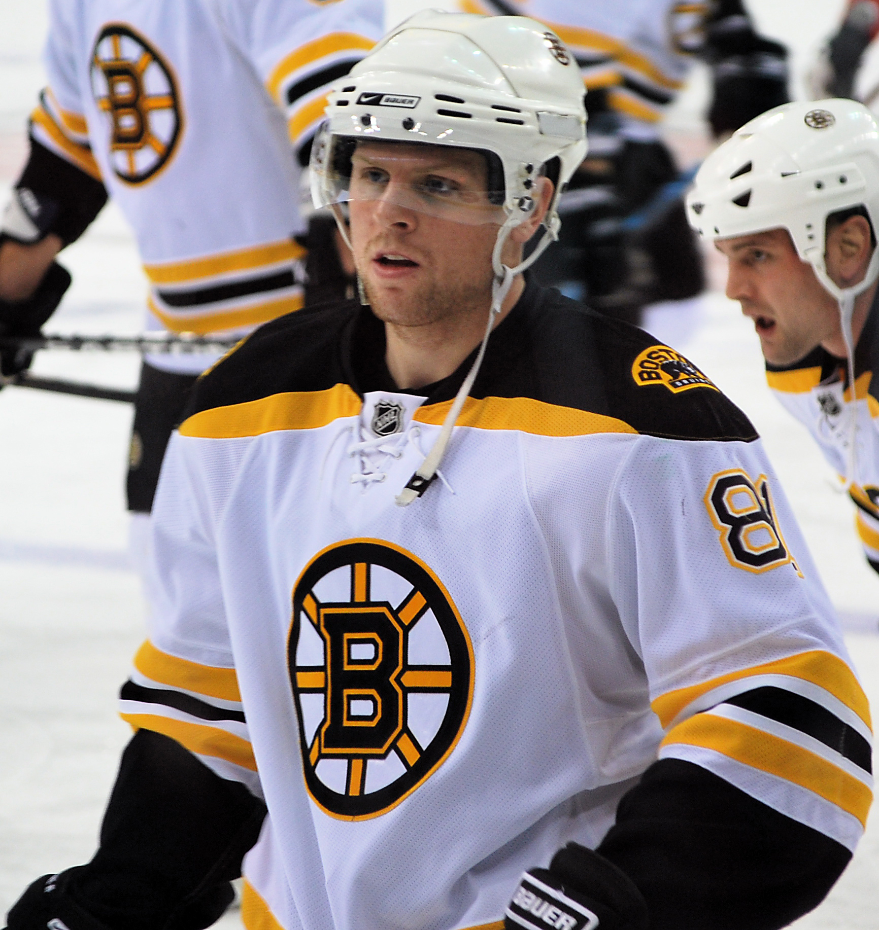 Phil Kessel and other members of the Bruins Boston Bruins